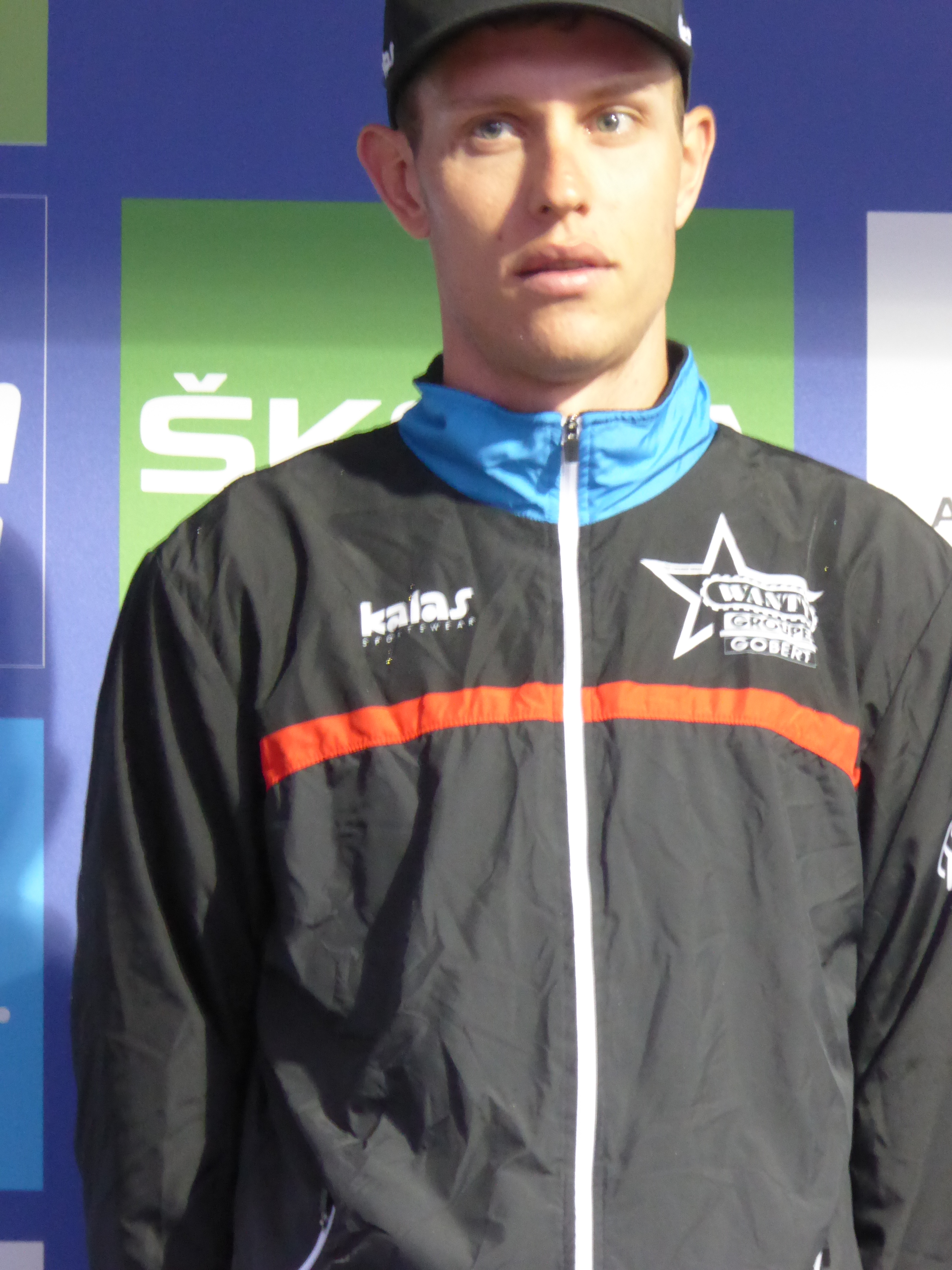 Björn Thurau (Wanty-Groupe Gobert), pictured at the 2016 Tour of Britain team presentation in Glasgow on 3 September 2016.